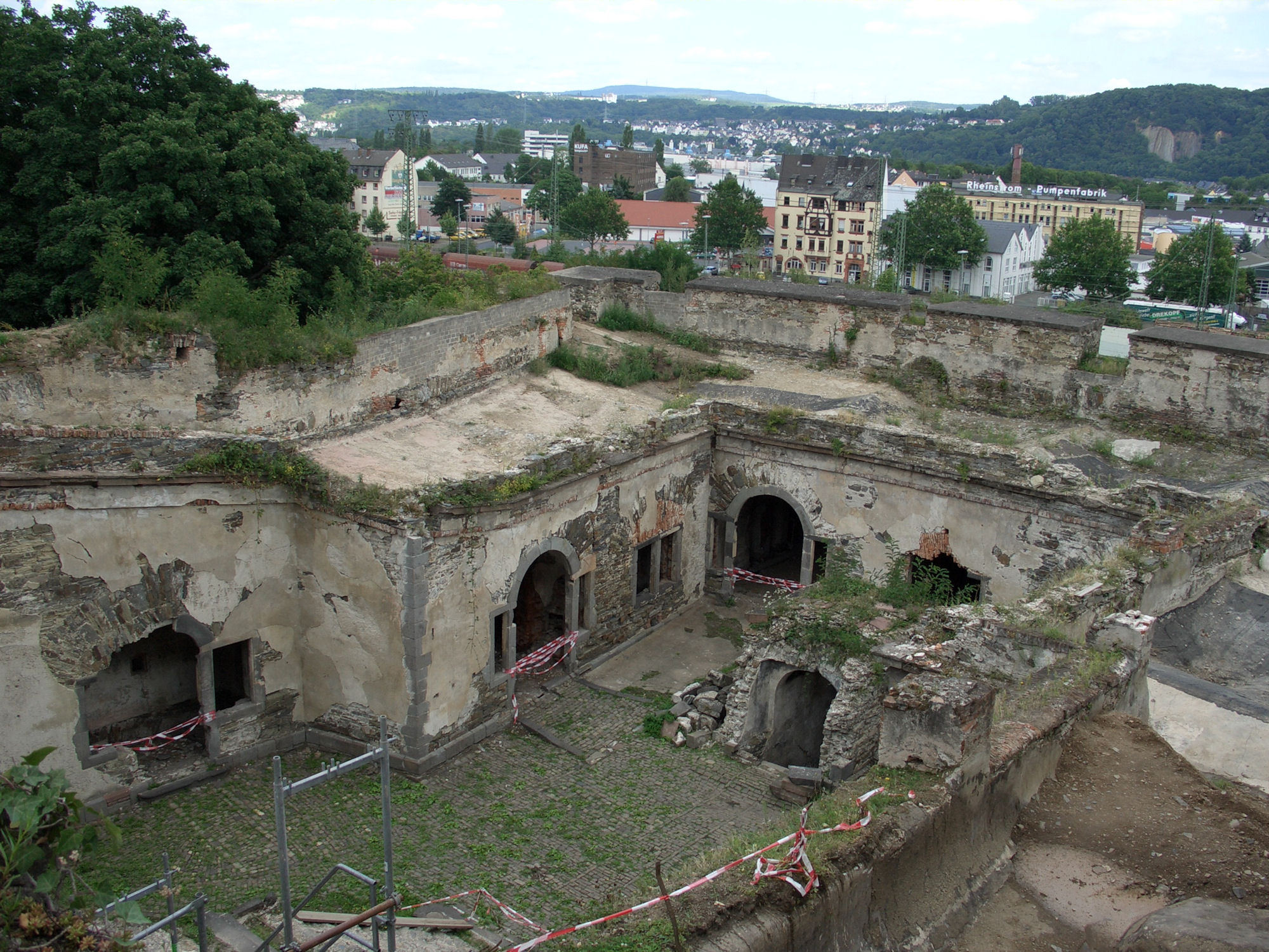 Courtyard of the fortress Feste Kaiser Franz in Koblenz